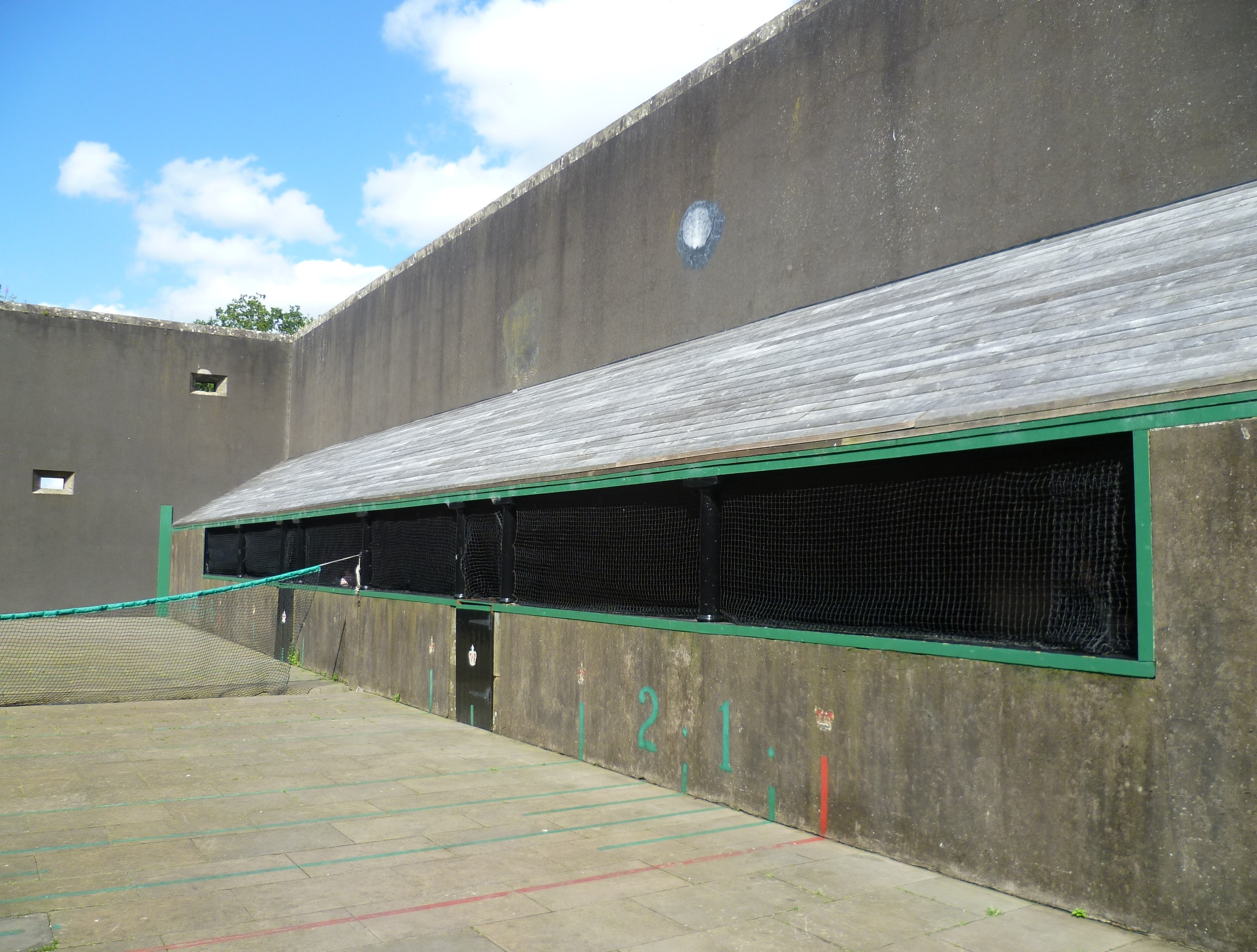 Real Tennis Court Spectators' Gallery